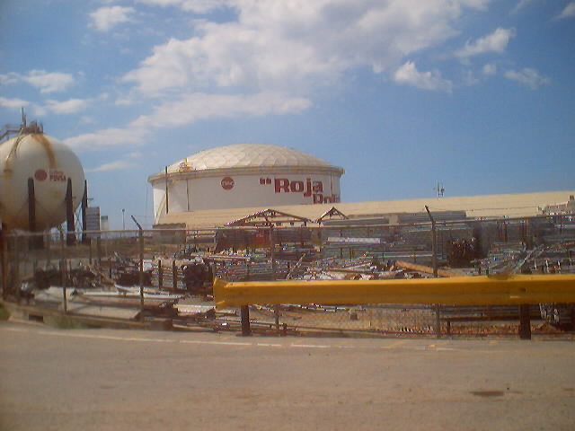 Factory owned by PDVSA: tank reads "Roja rojita".